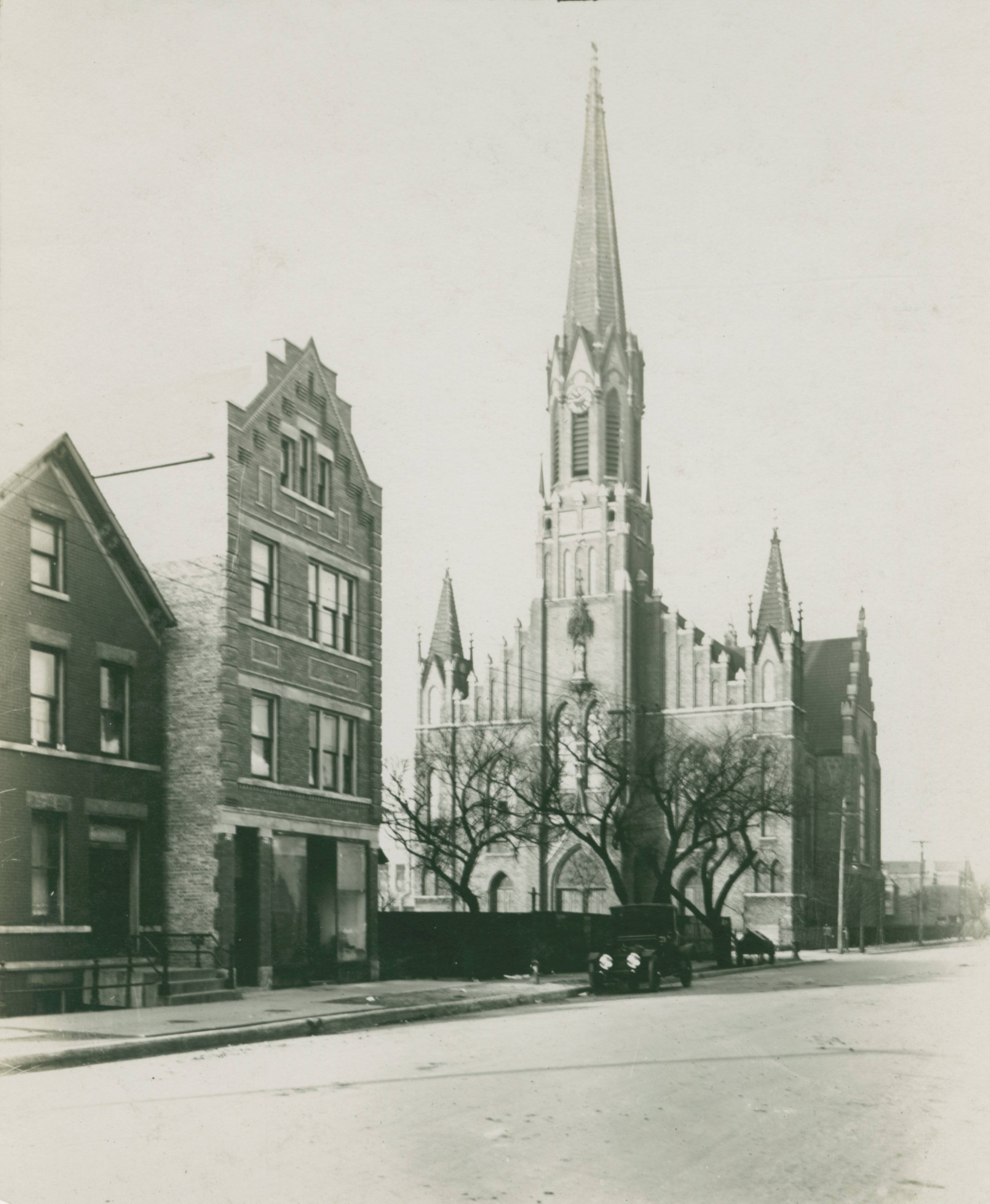 " St. George of the Lithuanians, Bridgeport, 31st and Auburn; windtaken, retake from different point"'--Photograph verso.